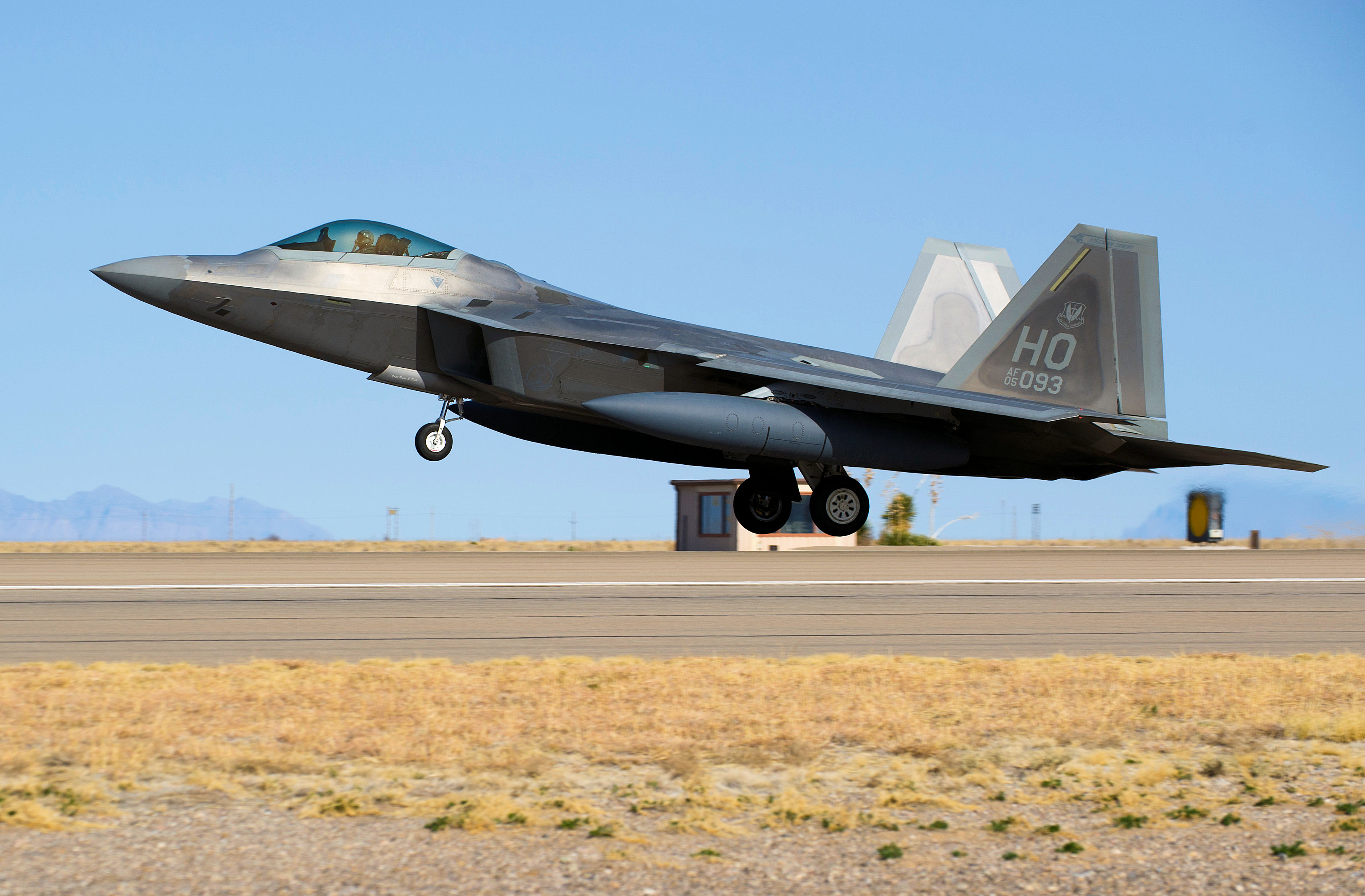 8th Fighter Squadron Lockheed Martin F-22A Block 30 Raptor 05-4093